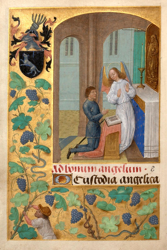 Detail from Louth Hours (alias Donne Hours) c.1480, painted by Simon Marmion. Depicted is Sir John Donne (probably born in 1420s – 1503) a Welsh courtier, diplomat and soldier, a notable figure of the Yorkist party, kneeling before his Guardian Angel. His arms are shown at left: Azure, a wolf salient argent (as shown on escutcheons on the capitals of the columns in the Donne Triptych by Hans Memling), with crest: A knot of five snakes.Tempera on parchment. Collection of University of Louvain-la-Neuve, Ms A2, folio 100 verso.